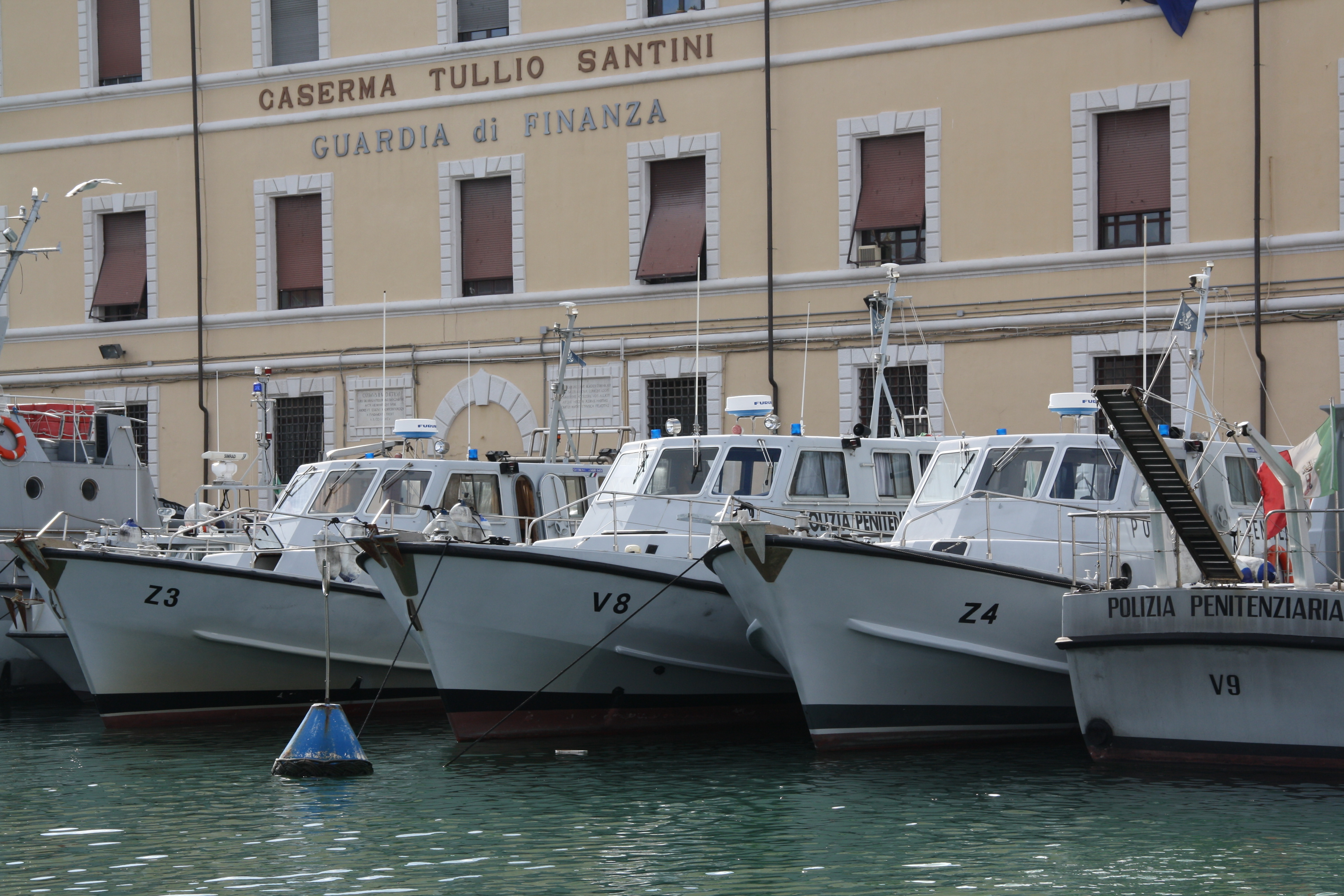 Italy, Polizia Penitenziaria patrol boats anchored in the Port of Livorno to the dock “Vecchia Darsena”.